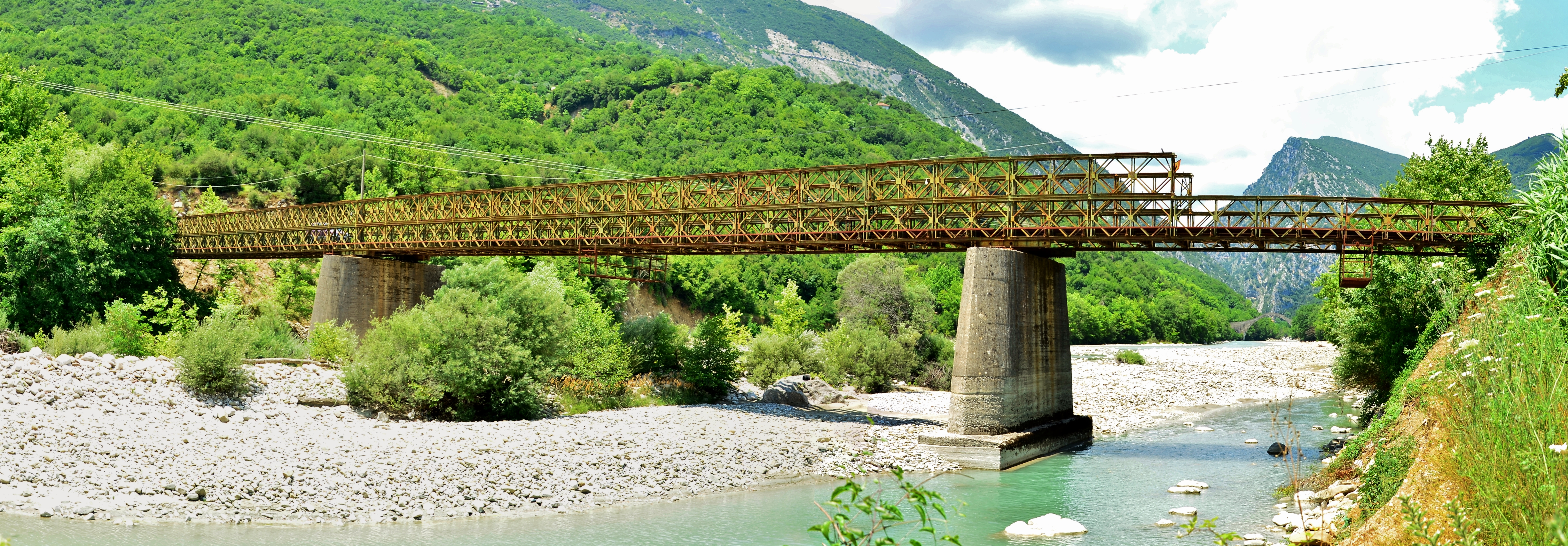 The two brigdes at Plaka location at Arachthos river